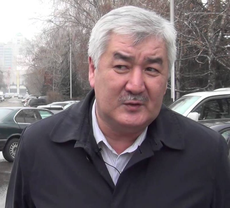 Amirzhan Kosanov, Kazakh politician